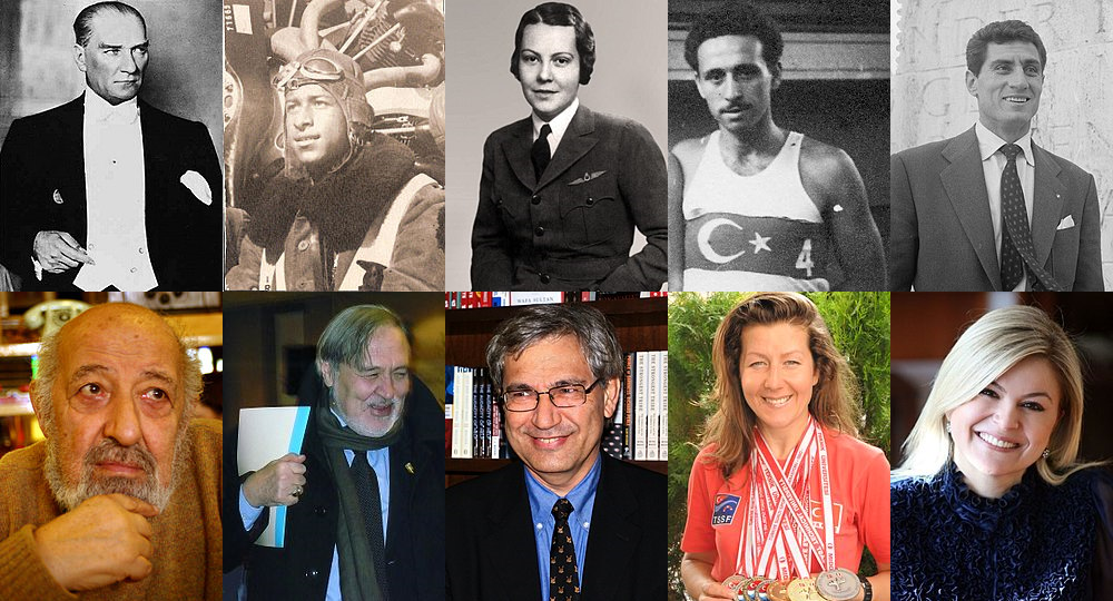 Above: Mustafa Kemal Atatürk · Ahmet Ali Çelikten · Sabiha Gökçen · Avram Barokas · Lefter Küçükandonyadis Below: Ara Güler · İlber Ortaylı · Orhan Pamuk · Birgül Erken · Deniz Ülke Arıboğan